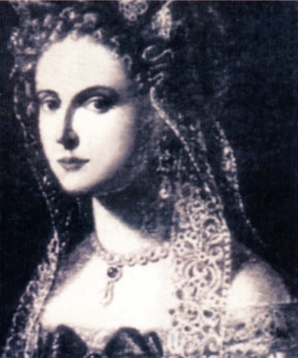 Portrait of Aurora Sanseverino